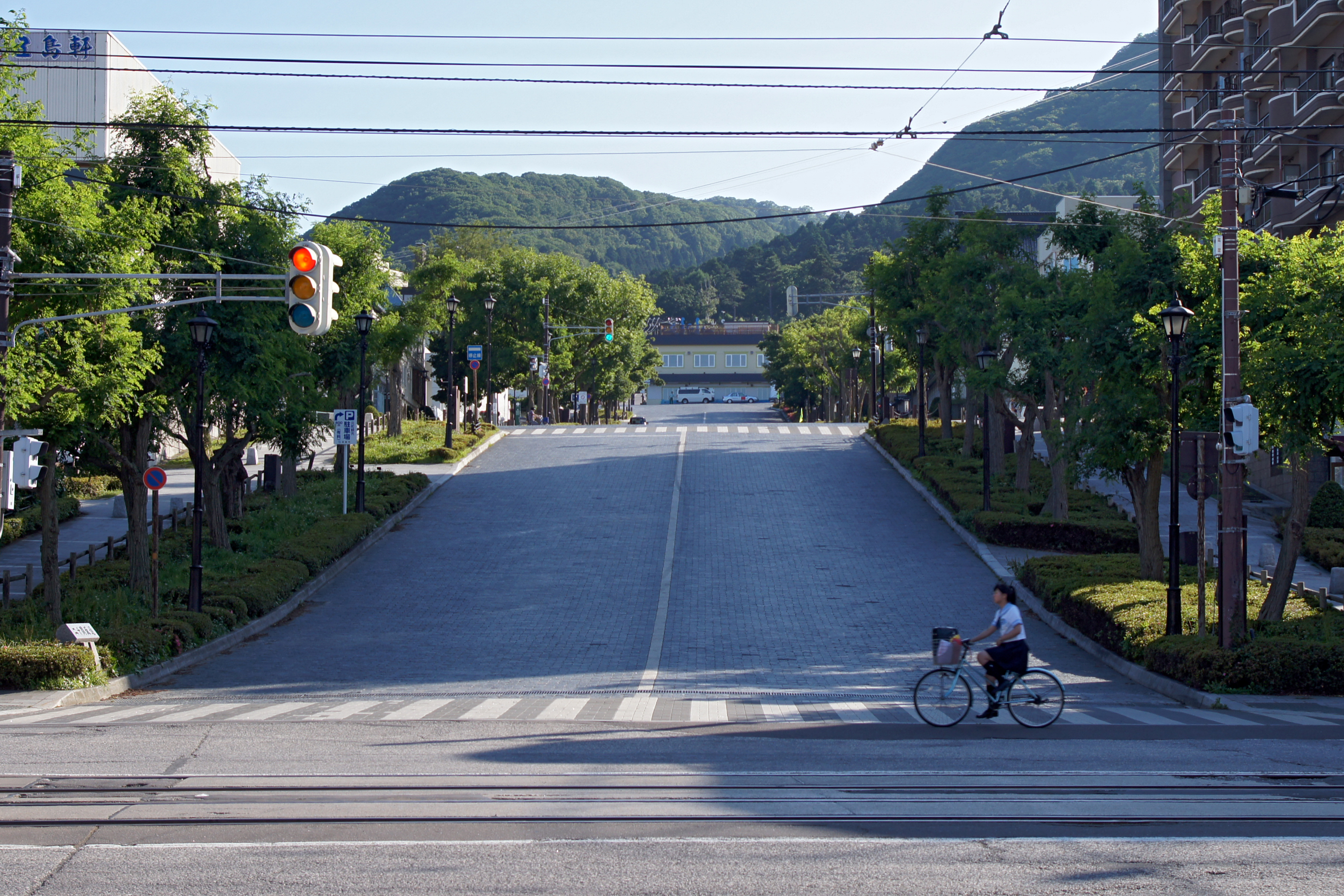 Nijukken-zaka Slope, Motomachi, Hakodate, Hokkaido prefecture, Japan